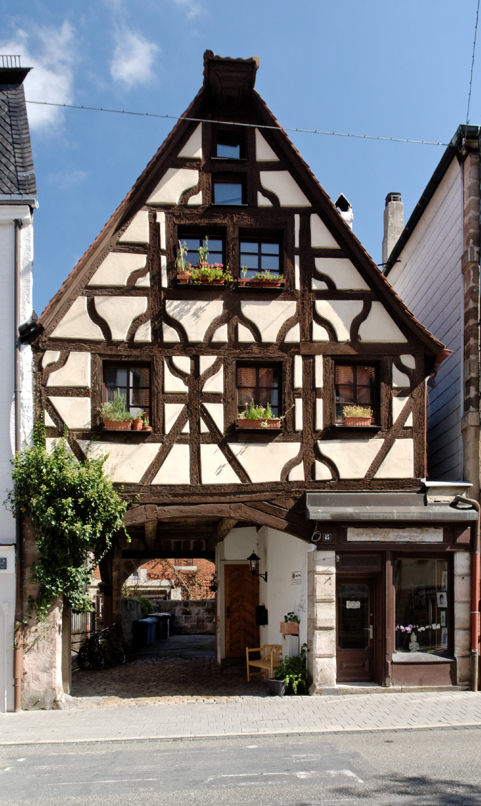 House Königstraße 45 in Fürth, Germany